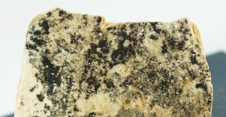 Emeleusite Locality: Illutalik Island, Narsaq, Kujalleq, Greenland. Dimensions: 2.4 x 1.8 x 1.1 cm. Emeleusite is a very rare complex lithium silicate, unique to this Greenland locality. Brown microcrystals richly cover the front of the thumbnail matrix. Rarely available. Ex. University of Copenhagen, Columbia University-American Museum of Natural History and Eugene Carmichael Collections.